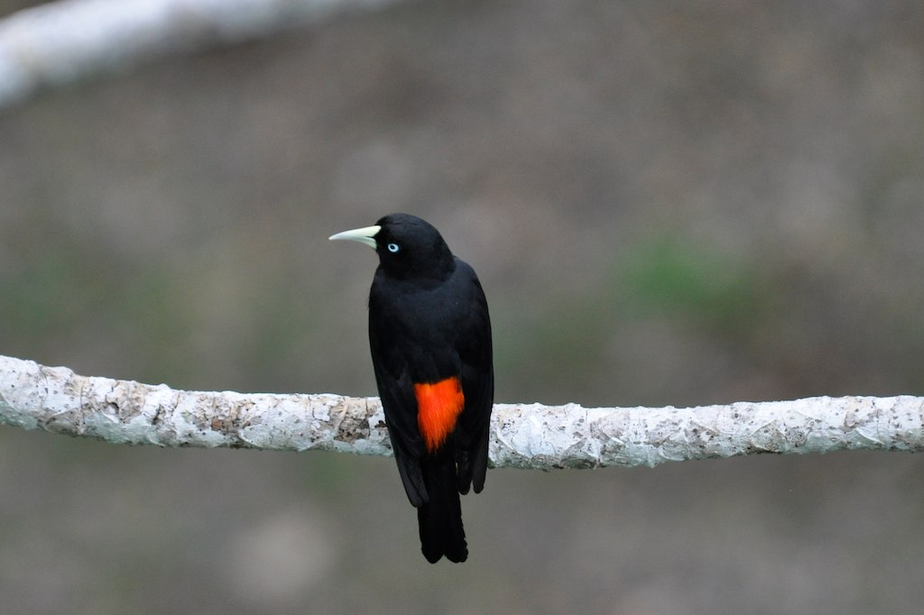 Scarlet-rumped Cacique (Cacicus microrhynchus) in Panama